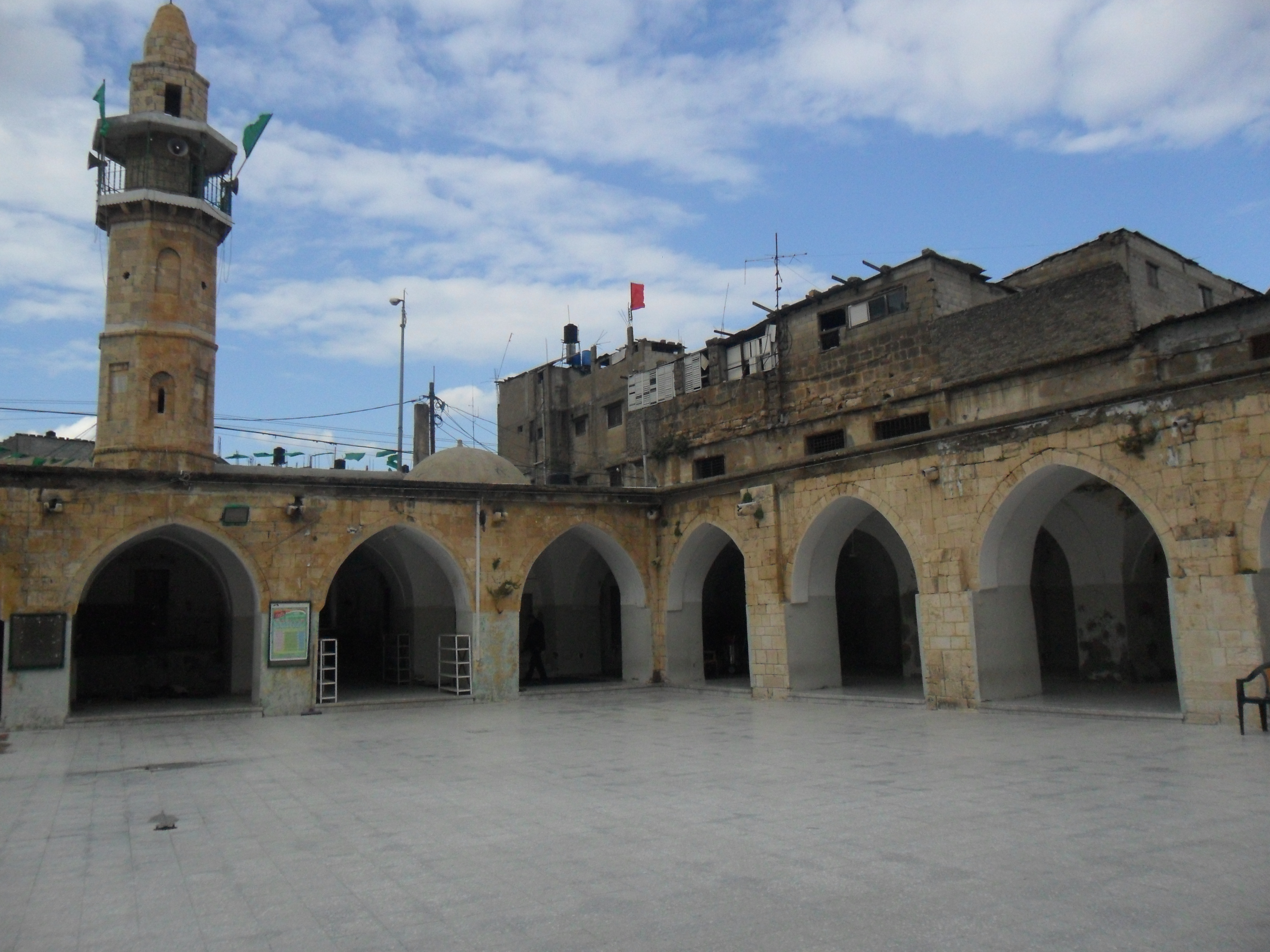 Ibn Othman Mosque